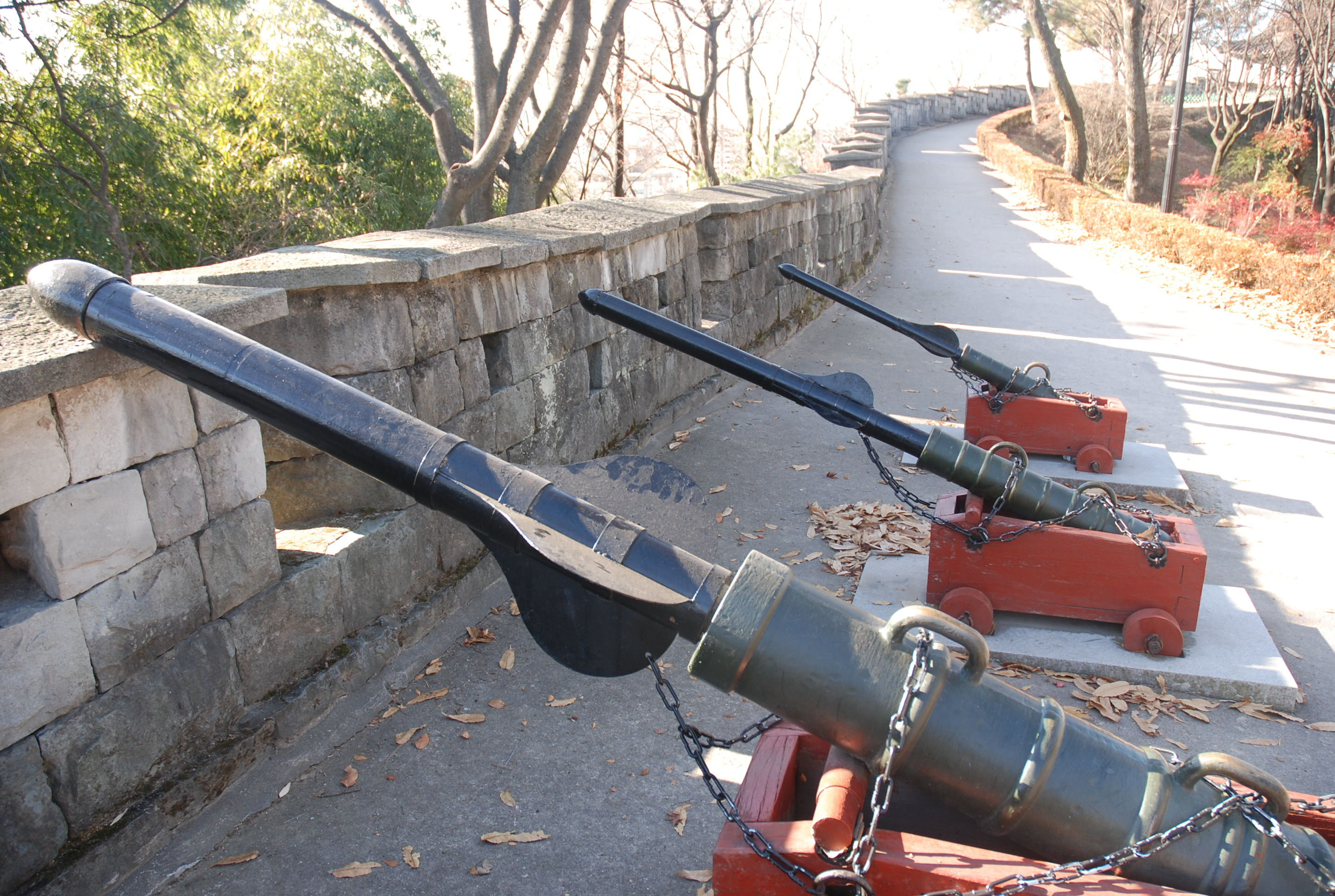 Three kind of Chongtong at the Jinju Castle. The largest is Cheonjachongtong(天字). The middle size cannon is Hyunjachongton(玄字). The smallest is Jijachongtong(地字).